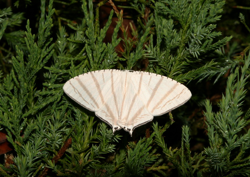 Malaysia, Fraser's Hill. March, 2009